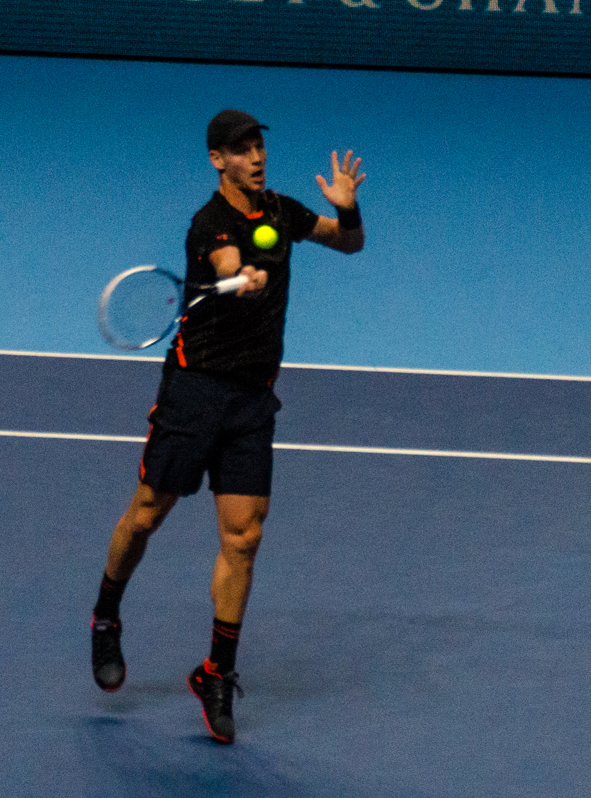 This is a photo of a tennis game at the ATP World Tour Finals.